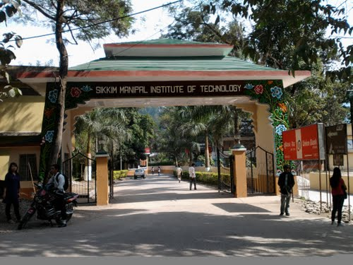 Entrance to SMIT,Majitar